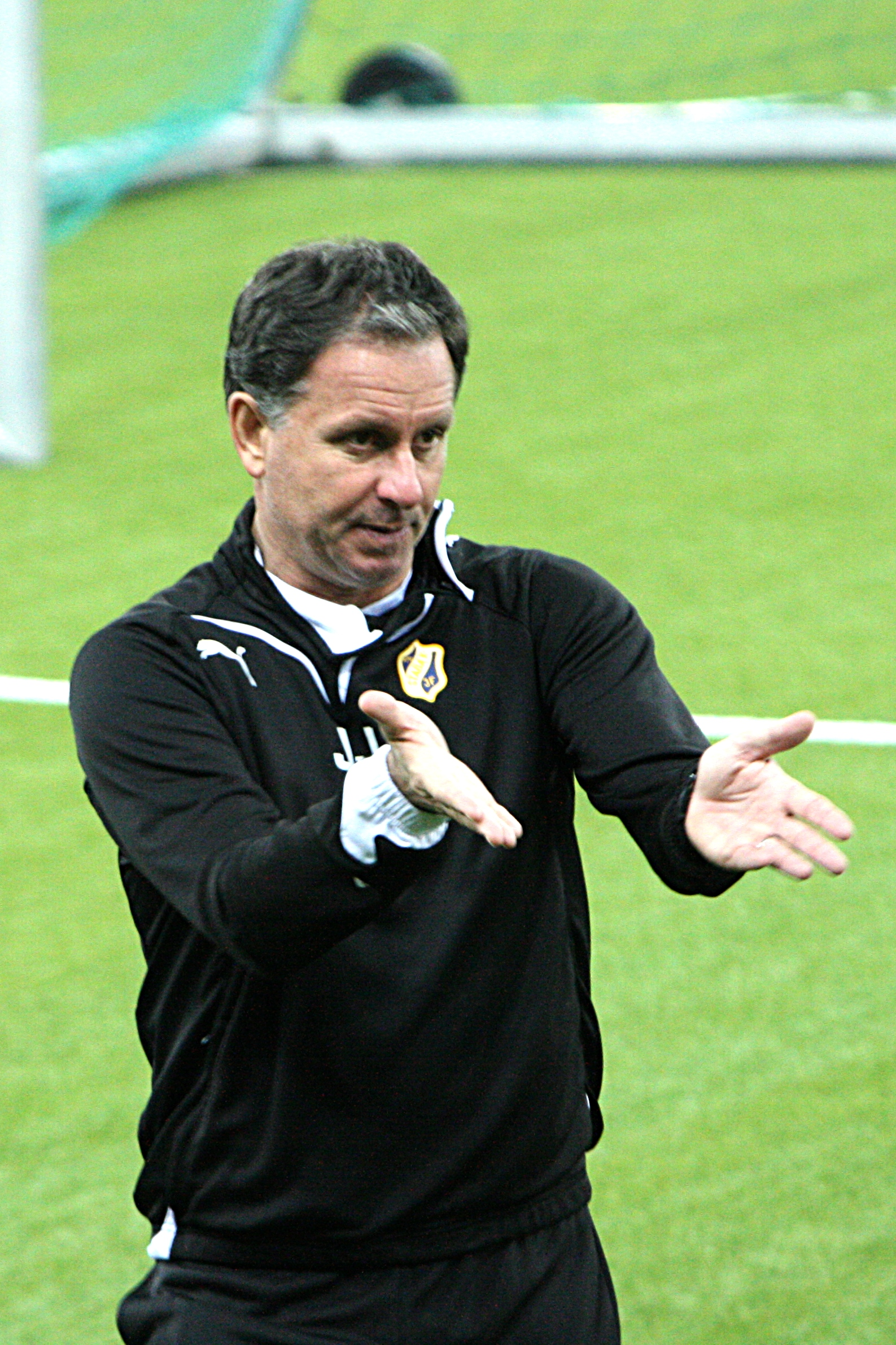 Swedish football manager Jan Jönsson.